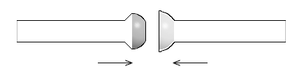 Drawing of ground glass ball and socket joints used for making laboratory glassware. A ball (inner) joint is shown on the left side and a socket (outer) joint is shown on the right side. The ground glass surfaces are shown with gray shading. By putting them together in the direction of the arrows, they can be joined, usually with a little grease spread on the ground glass surfaces. They are typically held together by a clamp. The ball joint goes in the socket joint to join attached tubular sections of glass together. H Padleckas created this image file in April 2006 especially for use in the article "Laboratory glassware" in Wikimedia. H Padleckas 13:29, 27 May 2006 (UTC)